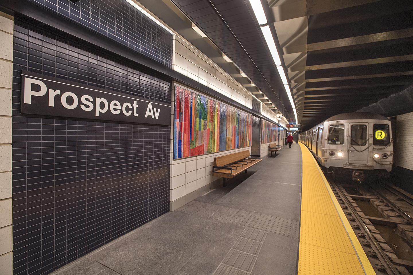 MTA Chairman Joseph Lhota and Managing Director Veronique "Ronnie" Hakim rode the first R train to the Prospect Av station which has reopened after an extensive renovation as p art of the Enhanced Station Initiative (ESI) on Thu., November 2, 2017. Photo: Metropolitan Transportation Authority / Patrick Cashin